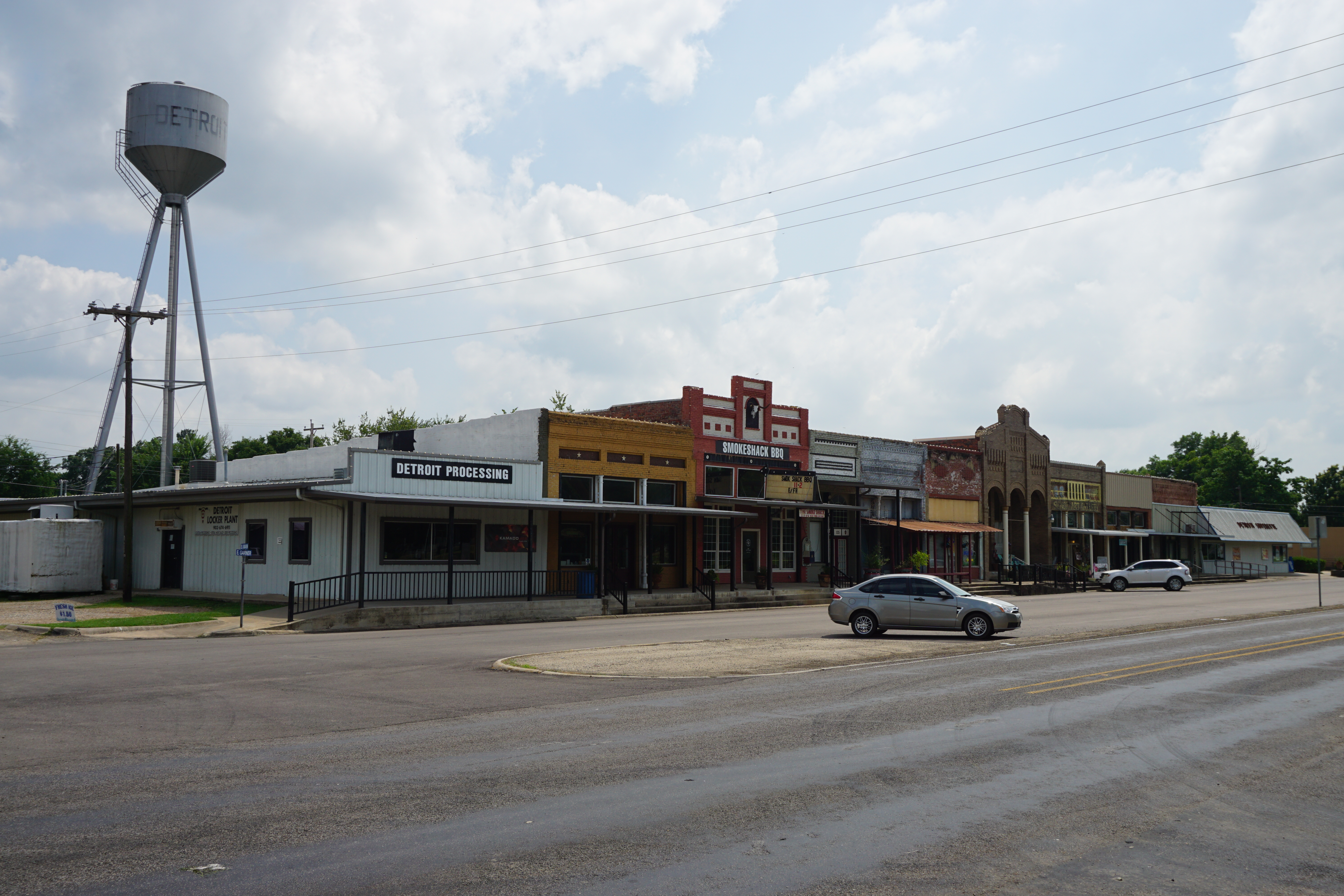 U.S. Route 82 and East Garner Drive in Detroit, Texas (United States).